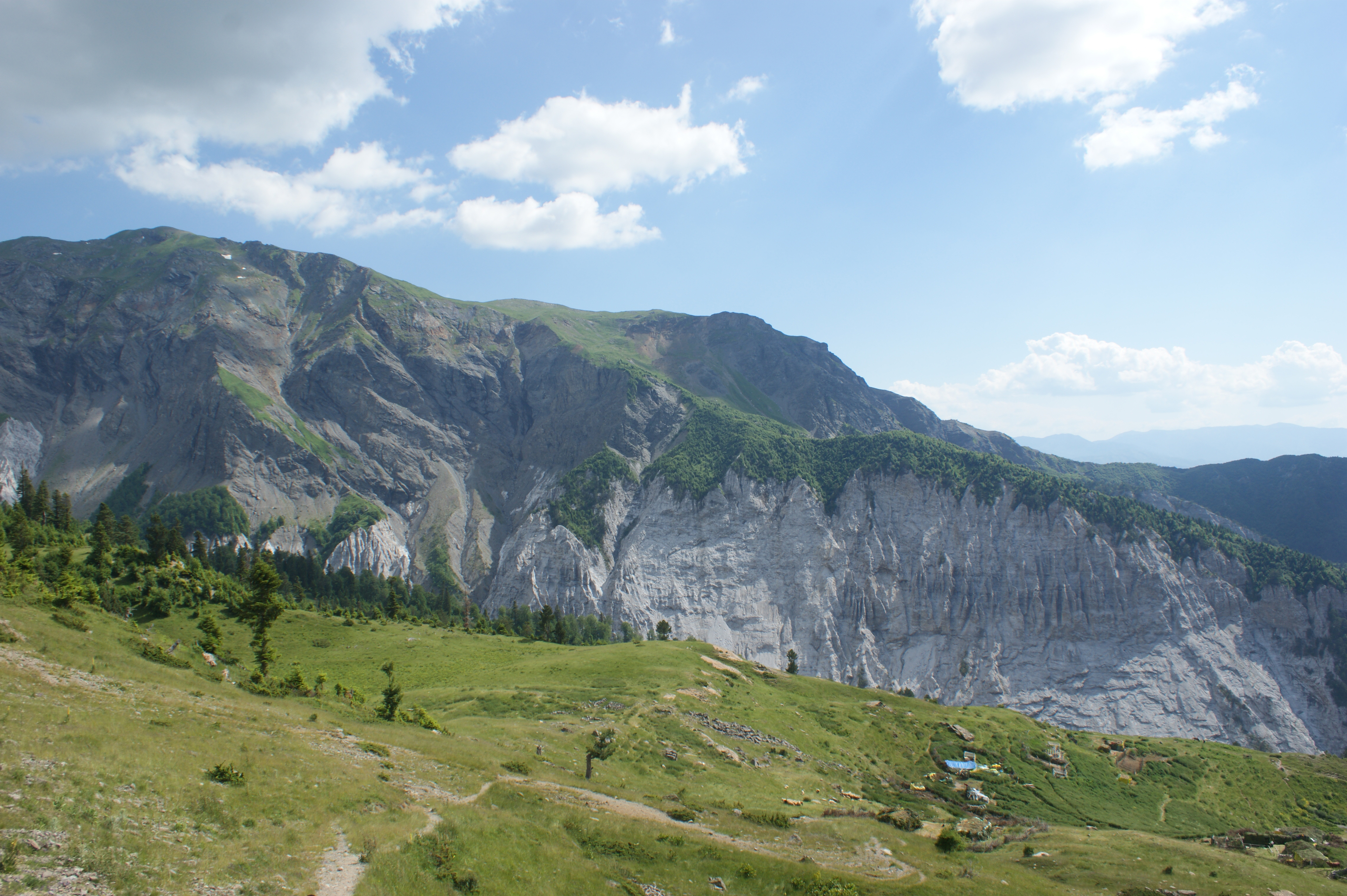 Grama Mountain with Gypsum layers, Eastern Albania